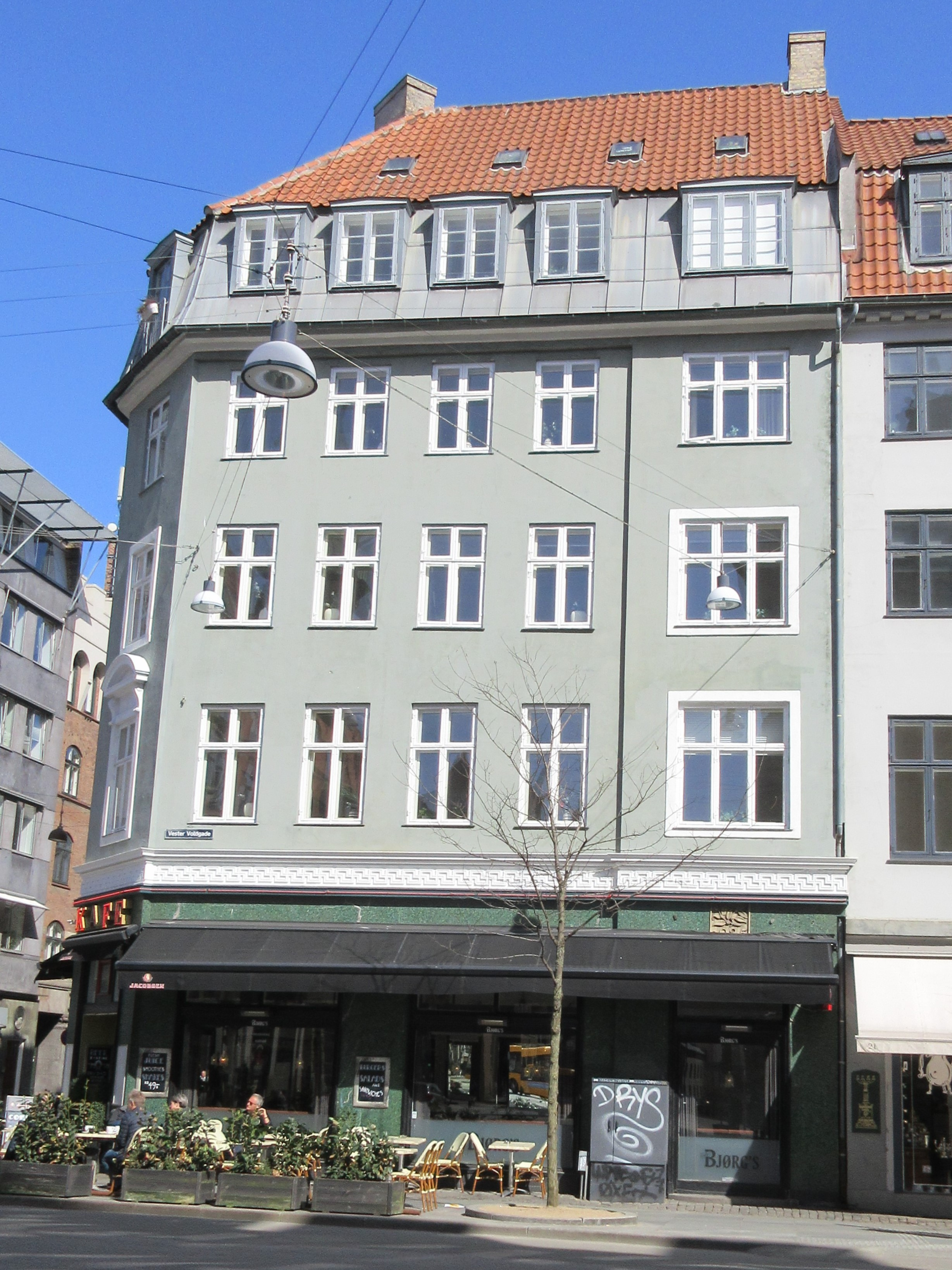 Vester Voldgade 19 in Copenhagen, Denmark